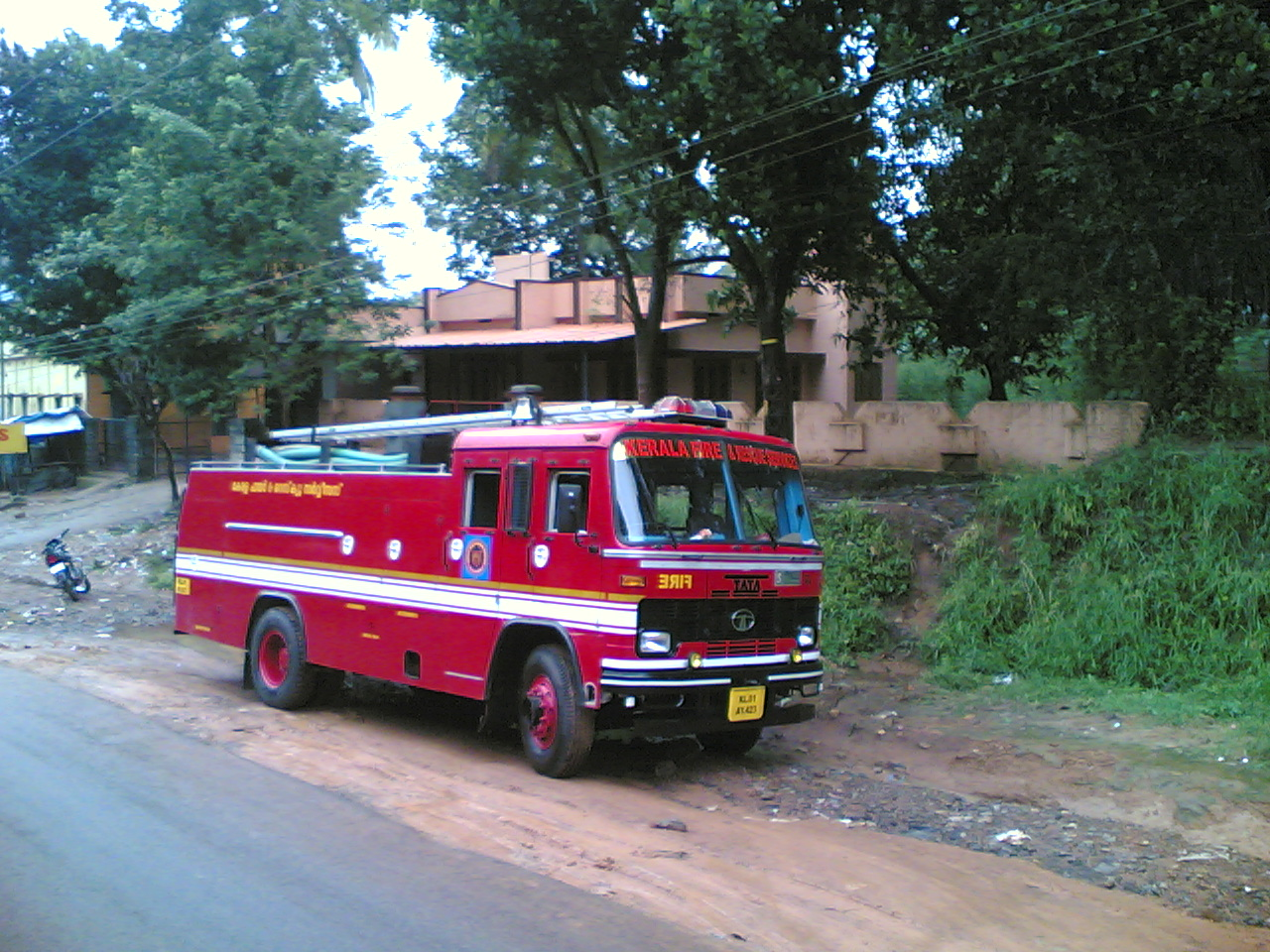 Fire and Rescue Vehicle ,Kerala Fire Force